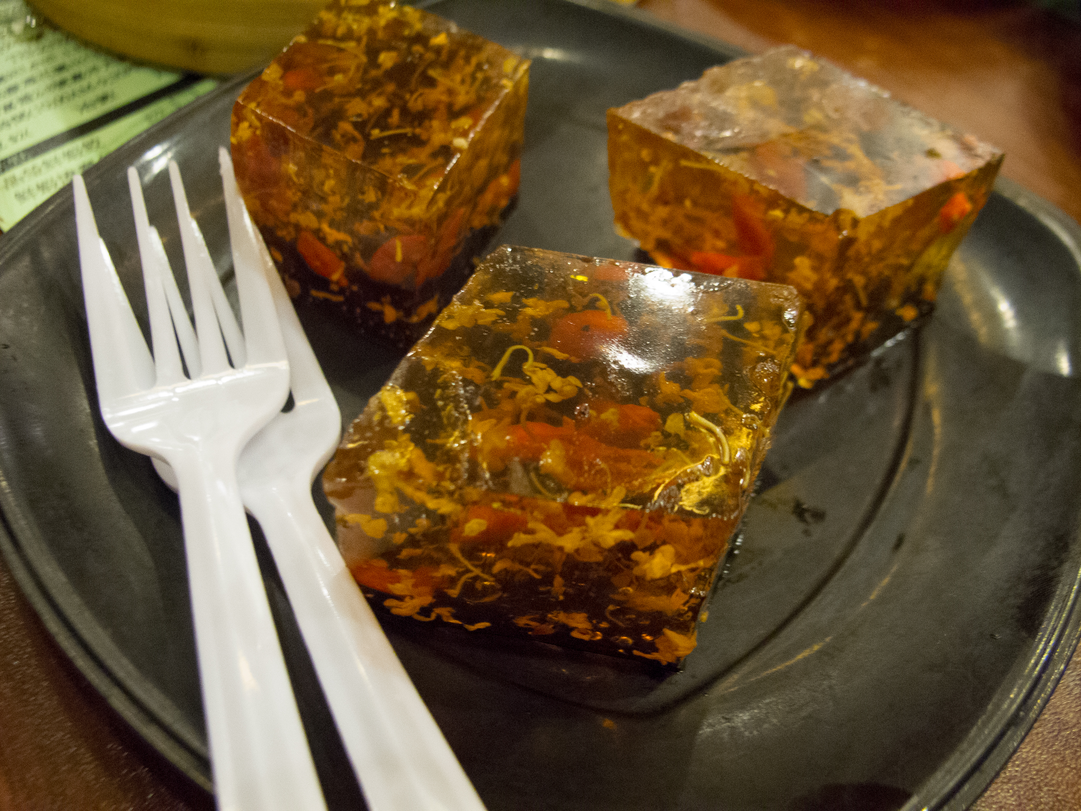 Osmanthus Jelly